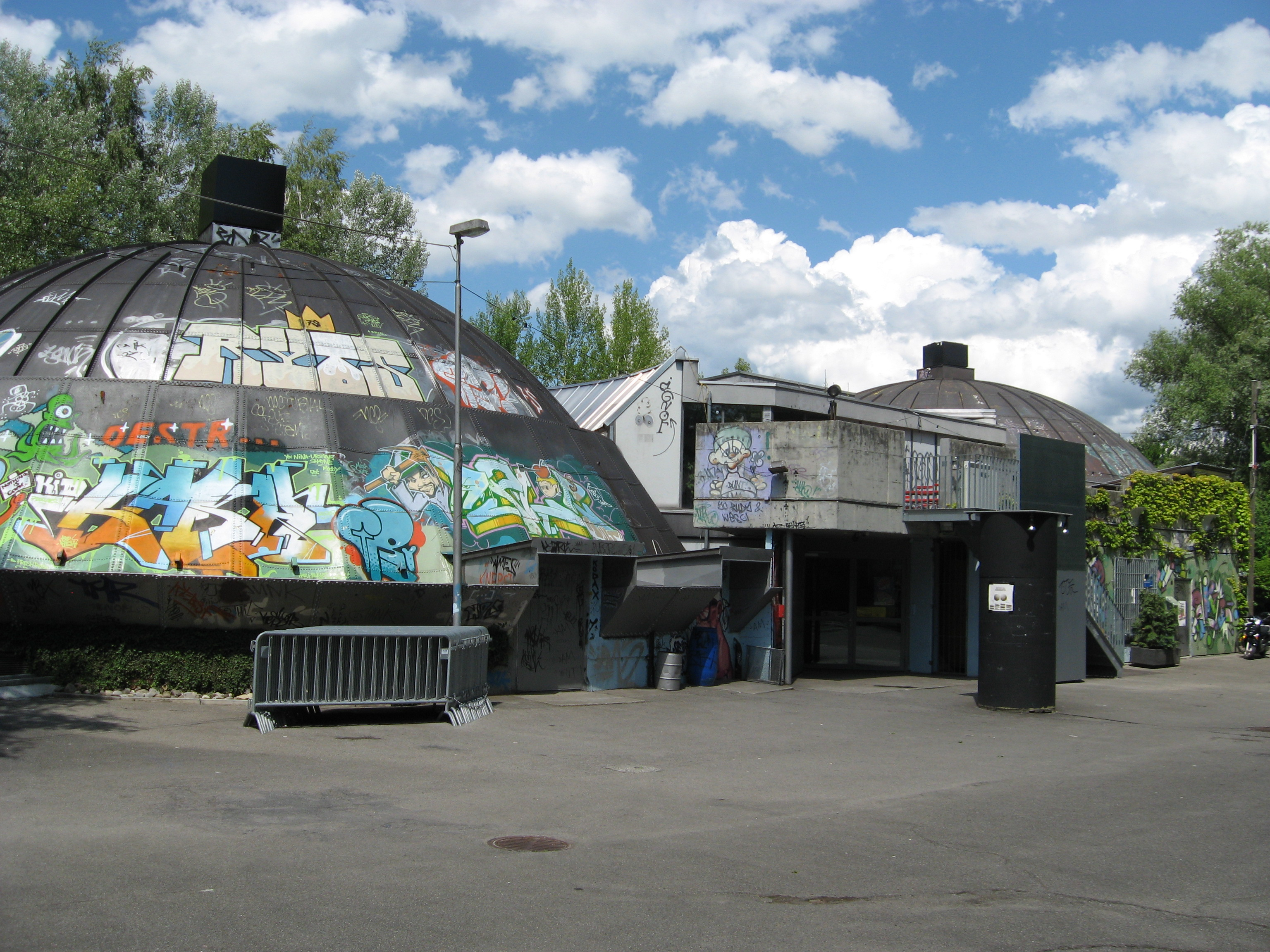 Youth centre “Gaskessel” in Berne